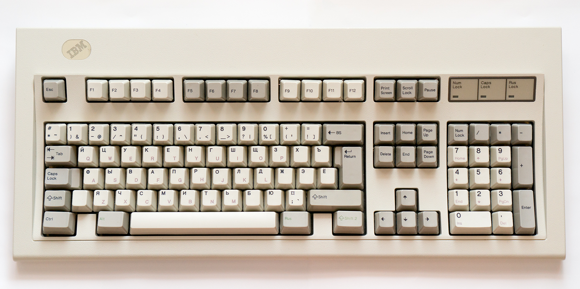 IBM Model M keyboard. P/n 1395622. Made in 1991. Cyrillyc keyboard layout (ЙЦУКЕН).